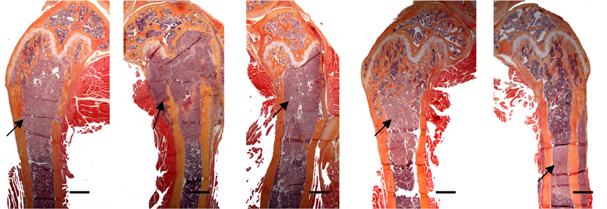 Representative histology of femurs with tumor indicated by arrows. Scale bar equal to 500 µm. .